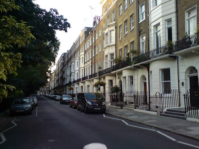 East side of Montagu Square Looking north from George Street. On the left is the private garden which runs down the middle of the square. Shortly after taking this picture, in the early evening, a couple came out of one of the houses, glasses of red wine in hand, and unlocked the gate, letting themselves into the garden to enjoy the evening.